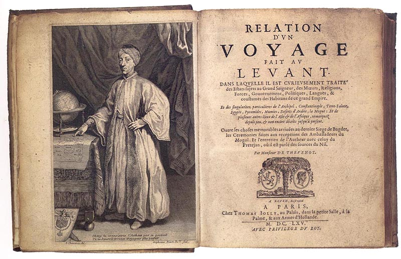 Title page of Jean Thévenot's "Relation d'un voyage fait au Levant" (1664)